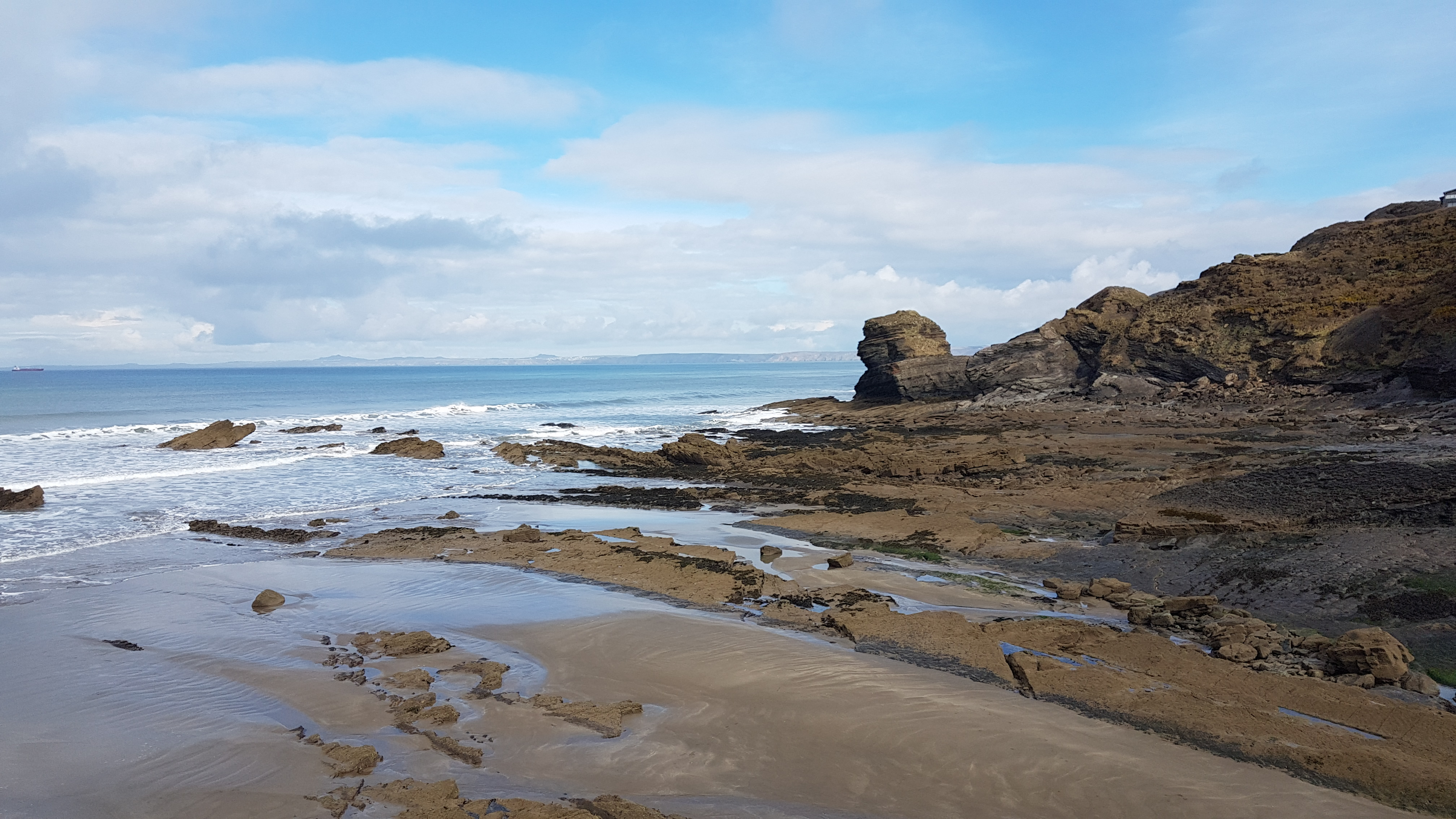 Lion Rock (centre) taken from Broad Haven beach